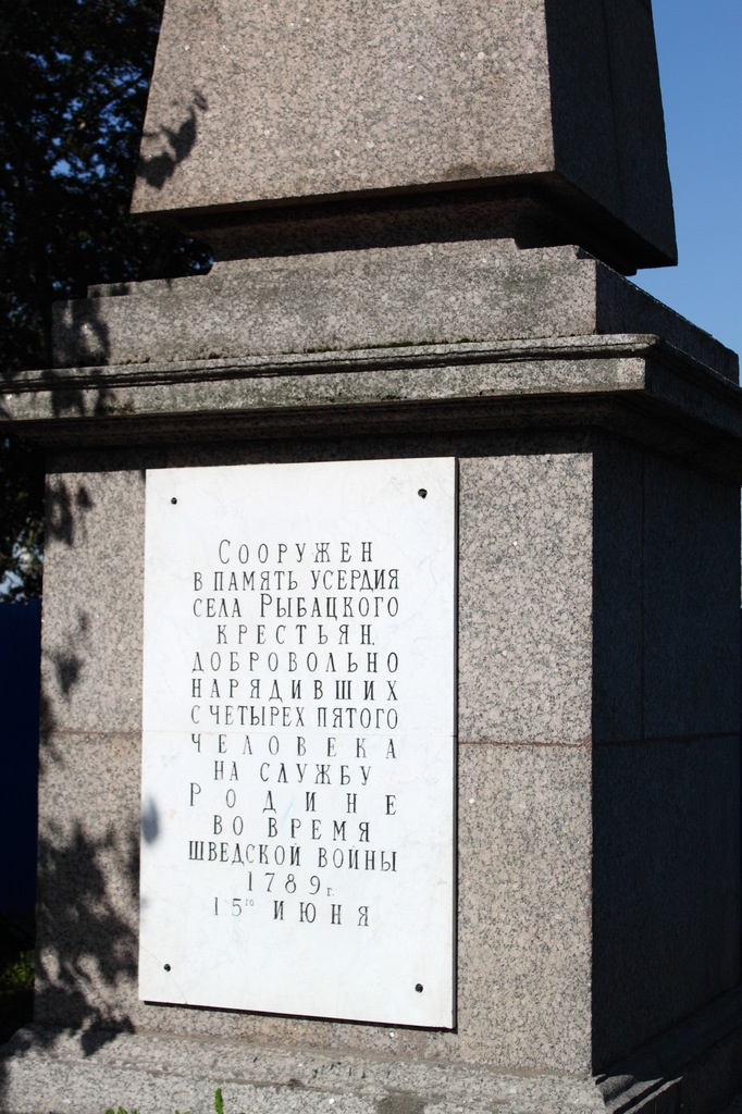 monument in Rybatskoye (St.Petersburg) in memory of Sweeden war XVIII c.